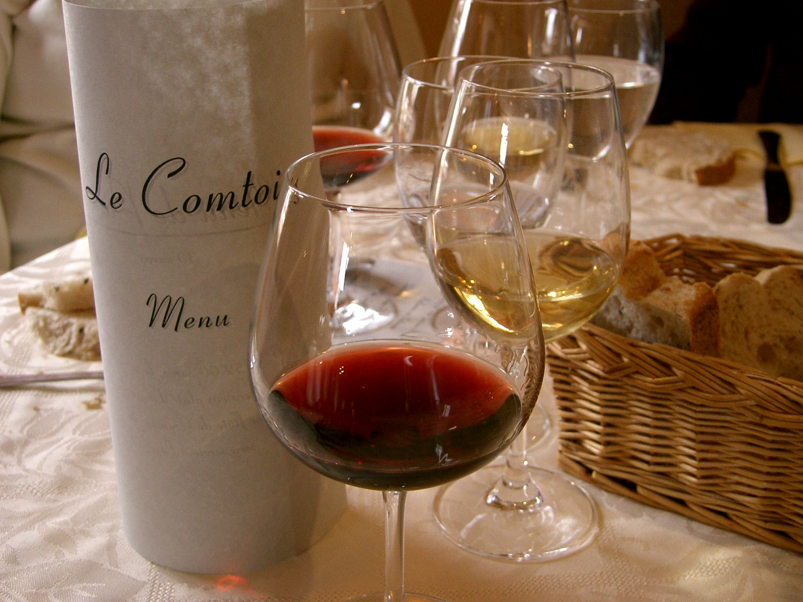 French gastronomy - Wines By: User:PRA